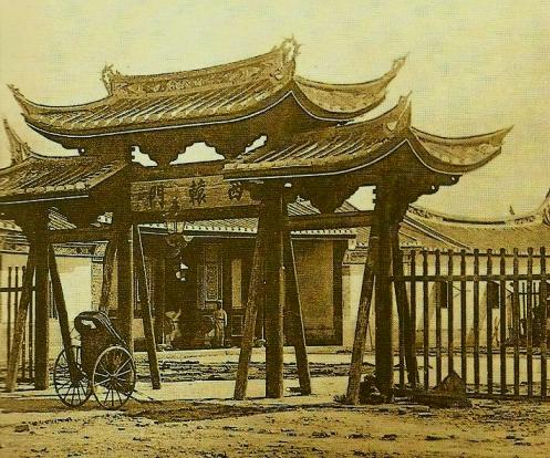 West Gate of Qing Dynasty Taiwan Provincial Administration Hall中文（台灣）: 臺灣布政使司衙門西轅門。